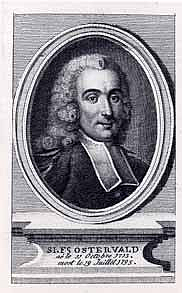 Frédéric Samuel Ostervald (1713–1795)